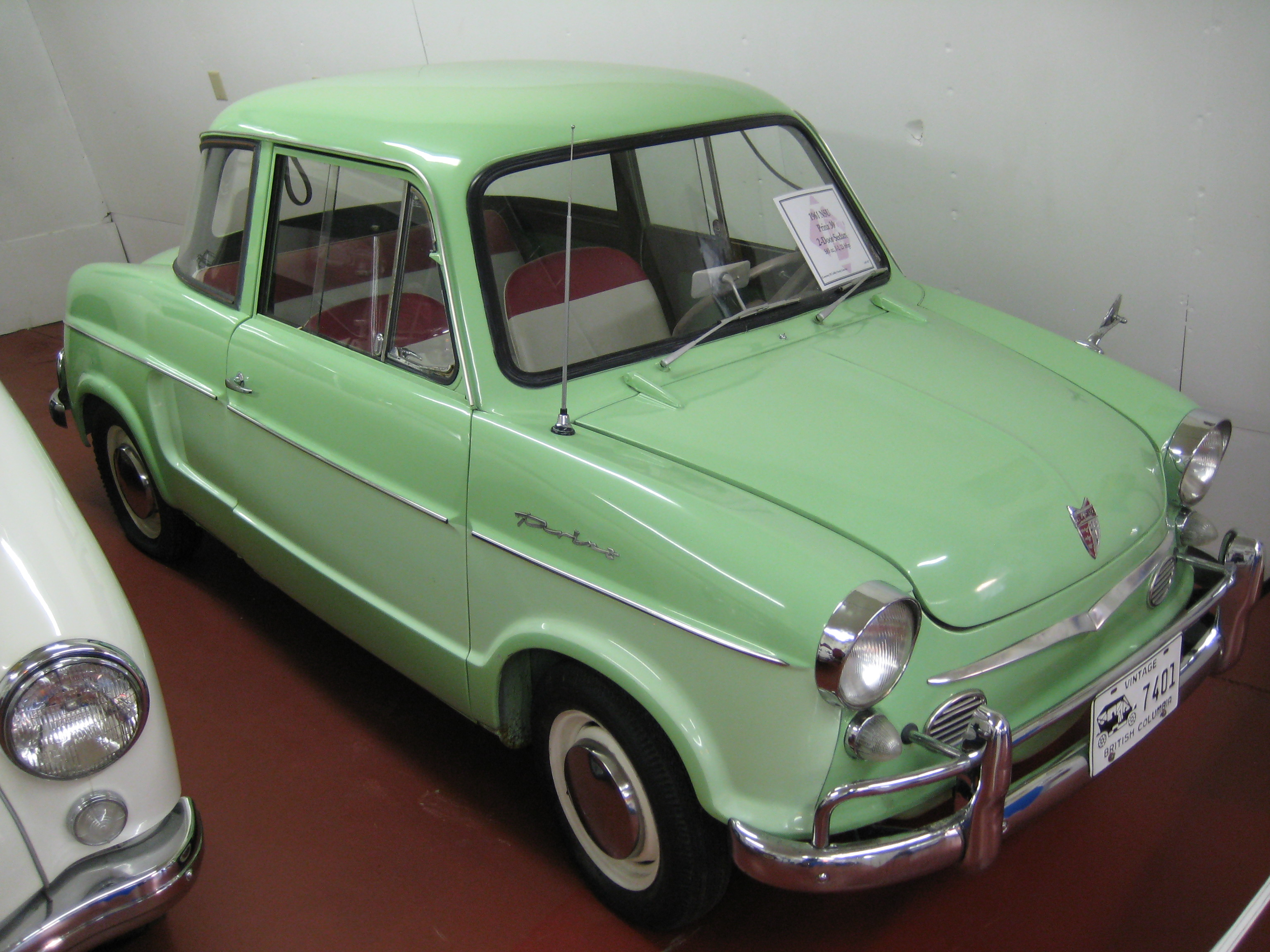 LeMay Open House, August 2011.